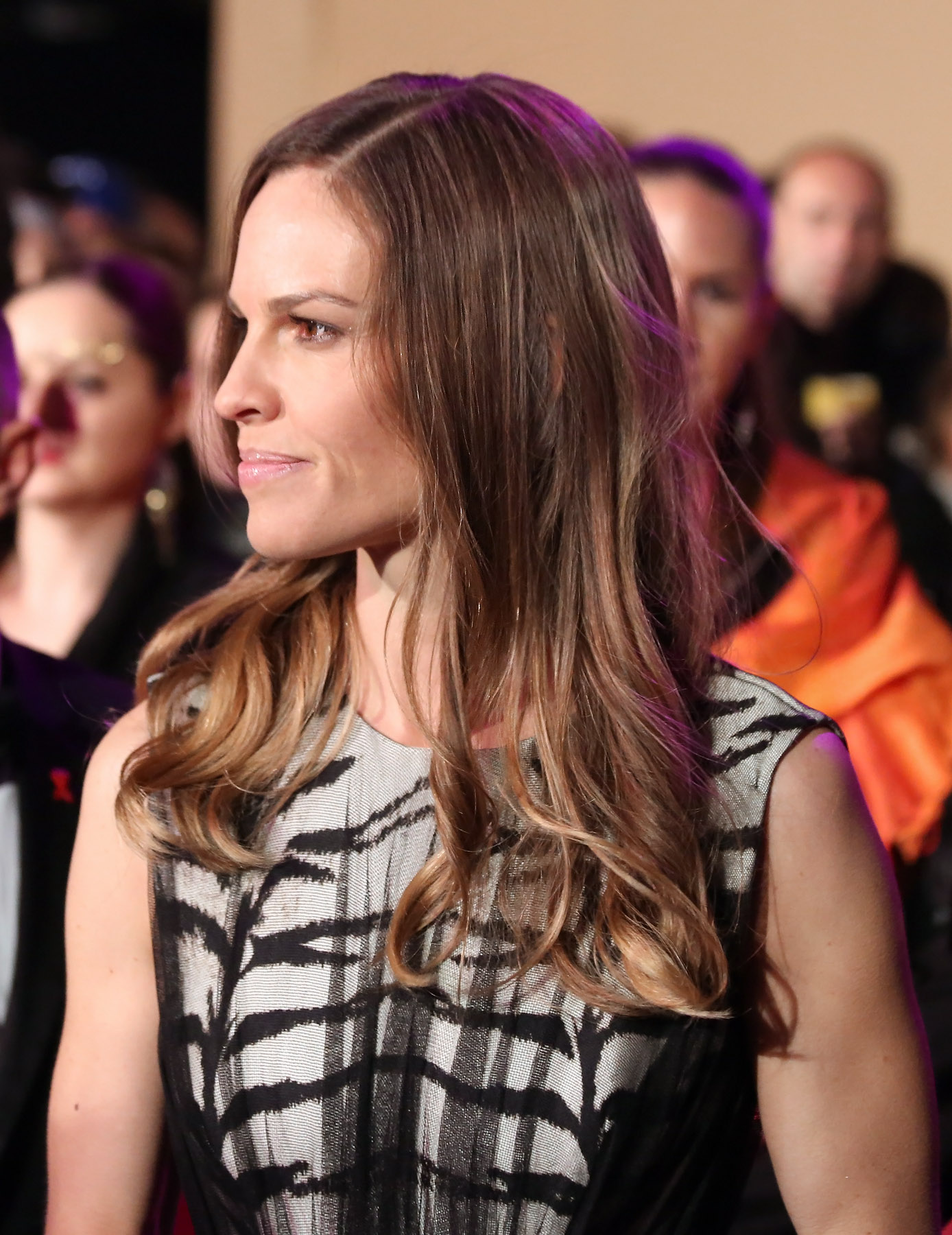 Hilary Swank on the 'magenta carpet' at Life Ball 2013 at the square in front of the city hall of Vienna, Vienna, Austria.